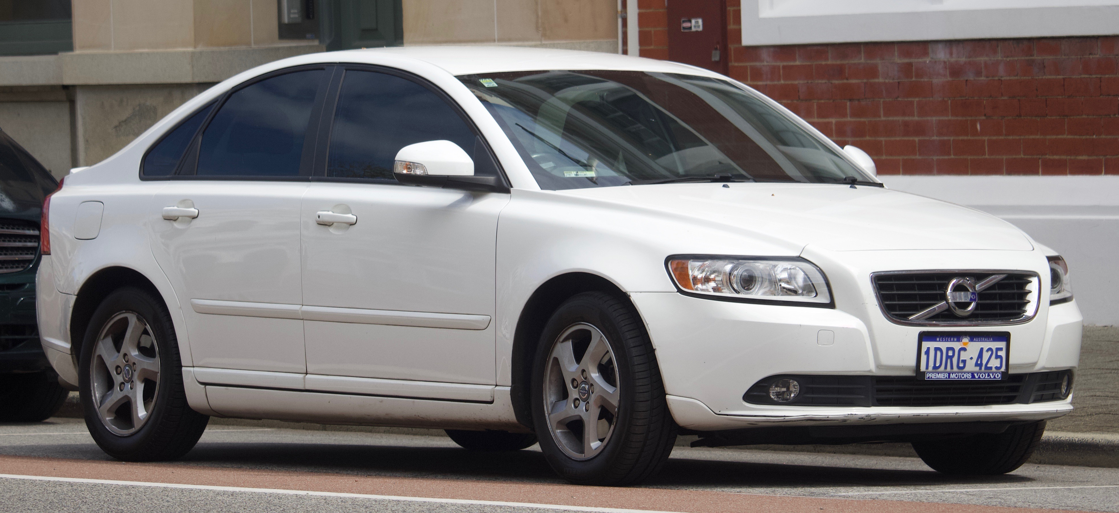 2011 Volvo S40 T5 sedan. Photographed in Fremantle, Western Australia, Australia.